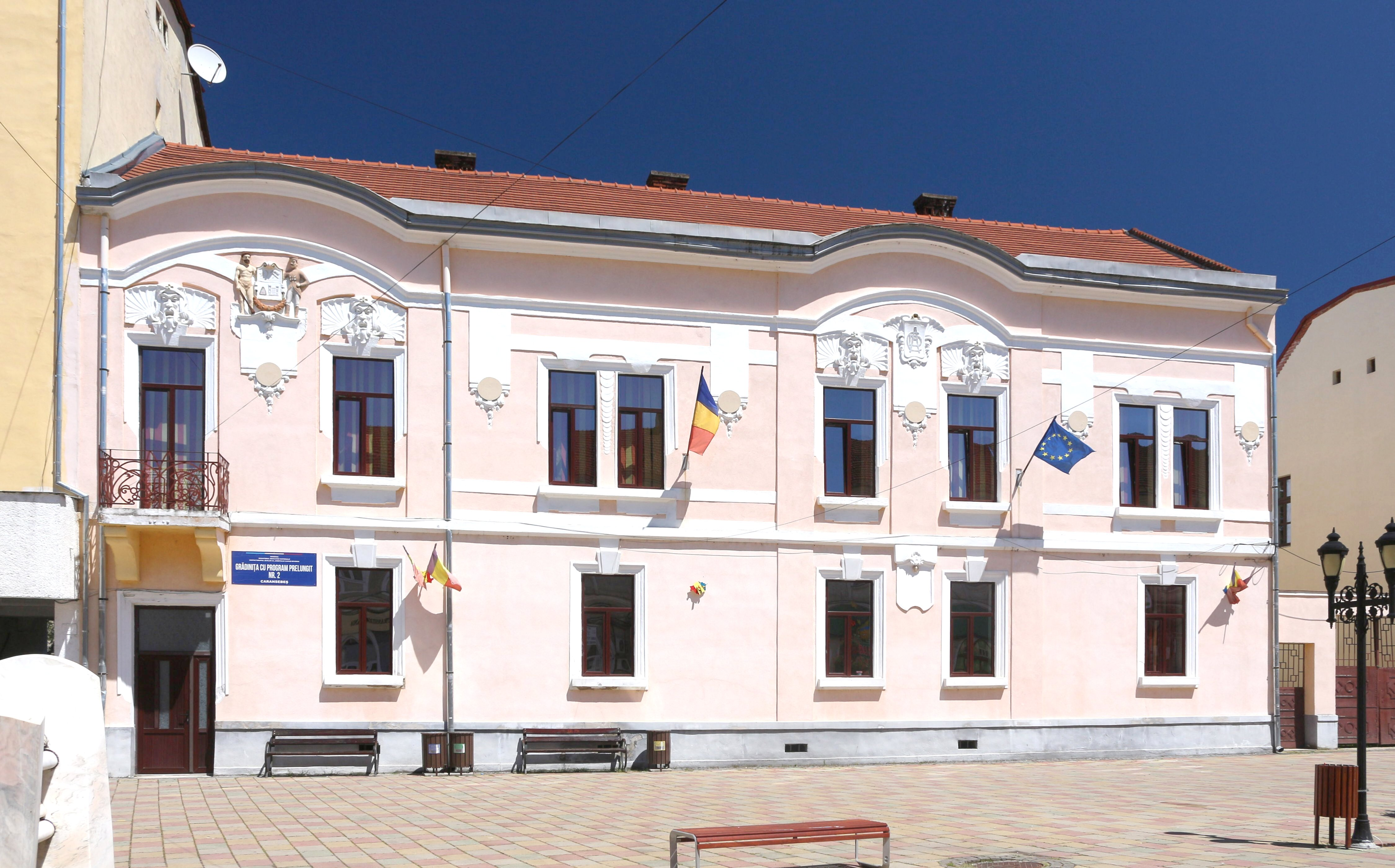 Former headquarters of Severin County, now a kindergarten, Eiscopiei St., no. 7, Catransebeș, Romania, built 18th century.